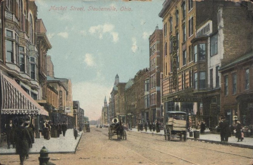 Postcard picture of Market Street in Steubenville, Ohio, about 1910